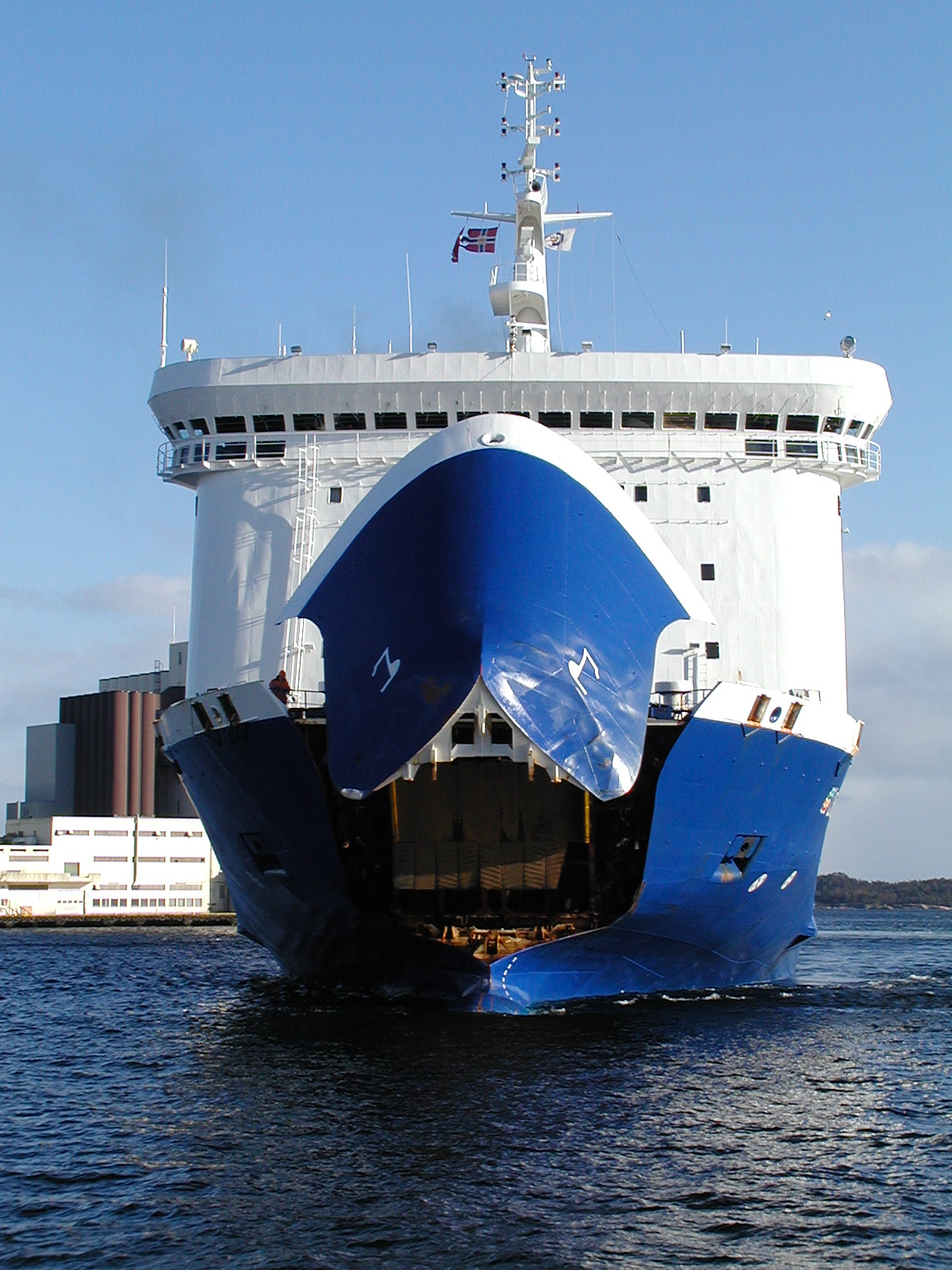 Christan IV (Colorline) in Kristiansand; selfmade 2006 by Kantor.JH with Olympus C-2100